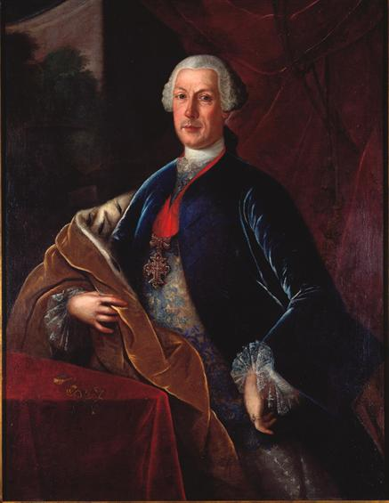 1740 Irmão de D. João V